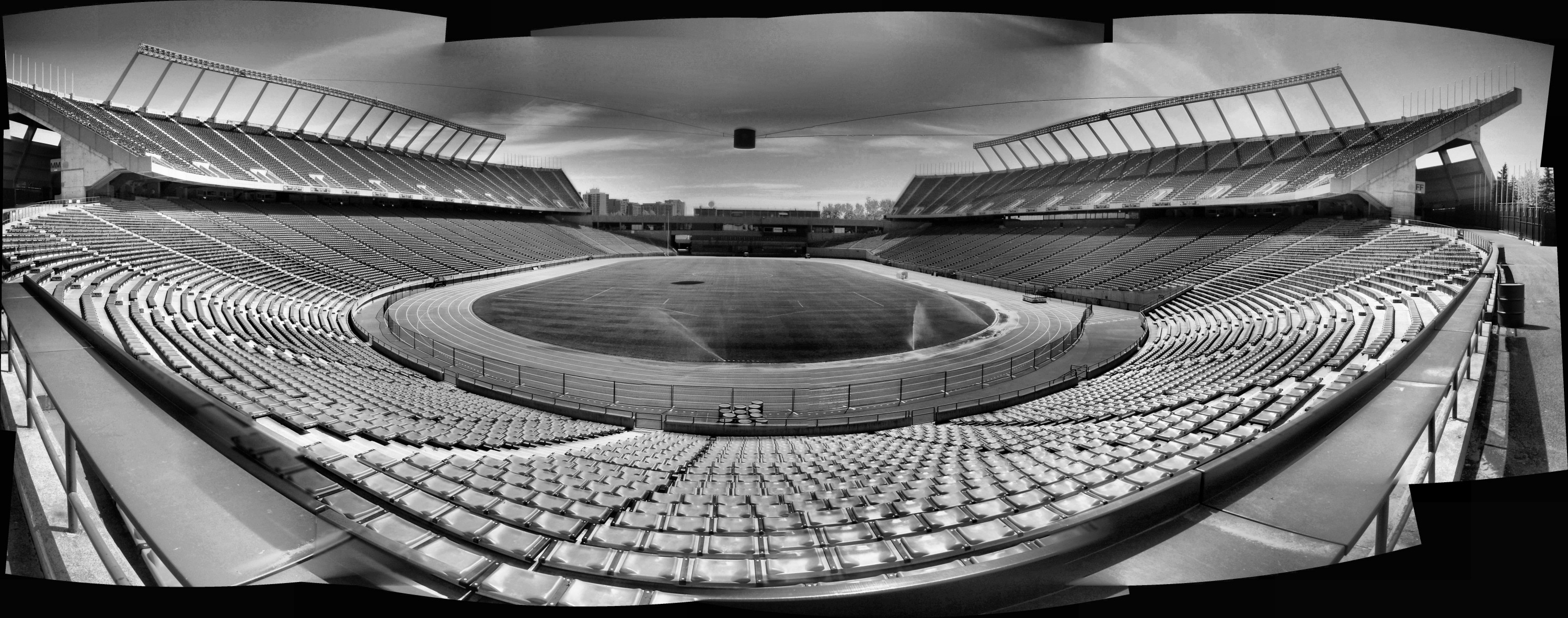 Commonwealth Stadium in Edmonton, Alberta, Canada.commonwealth